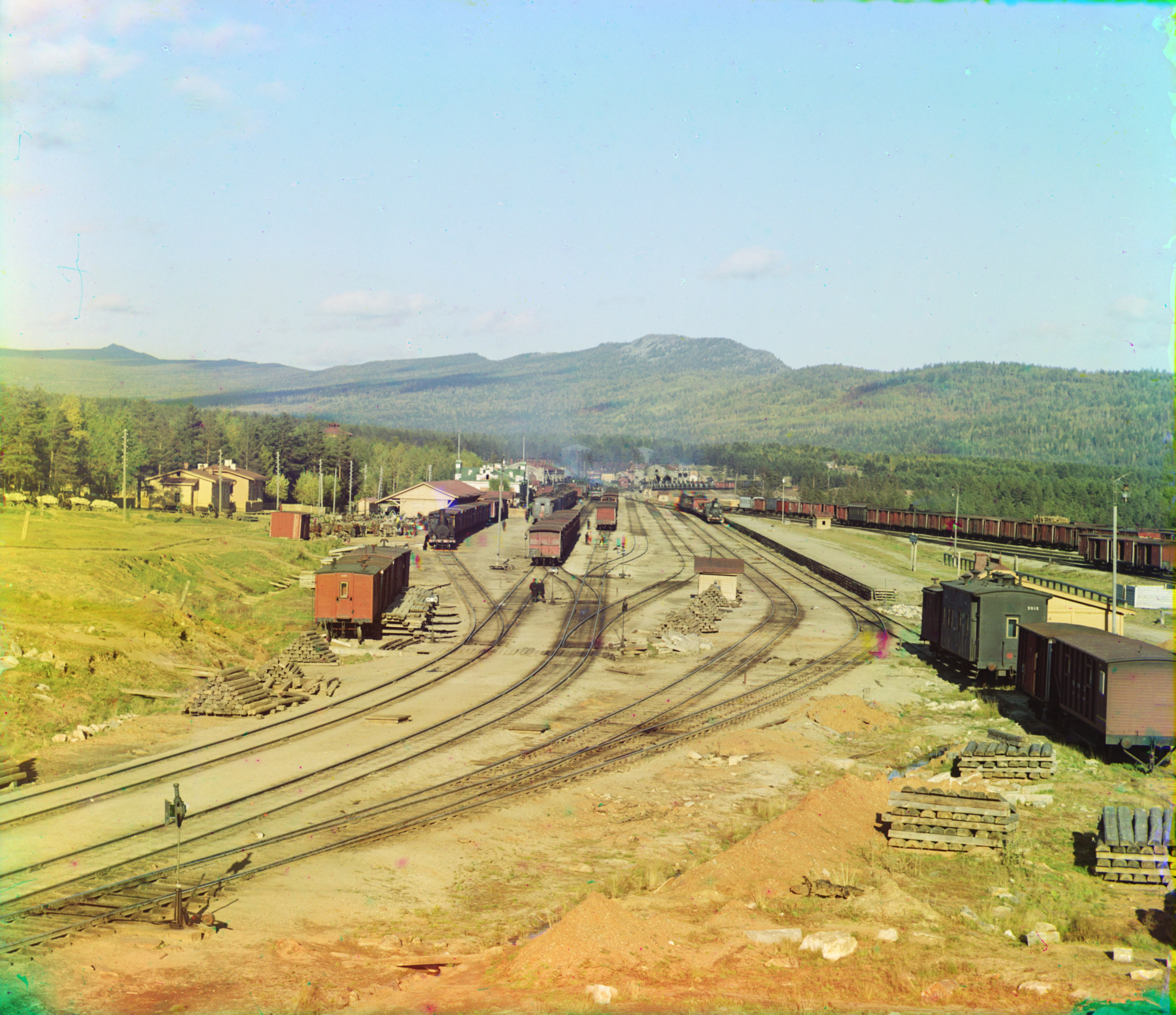 Early color photograph from Russia, created by Sergei Mikhailovich Prokudin-Gorskii as part of his work to document the Russian Empire from 1909 to 1915. Train station in Zlatoust, Chelyabinsk oblast, Russia.